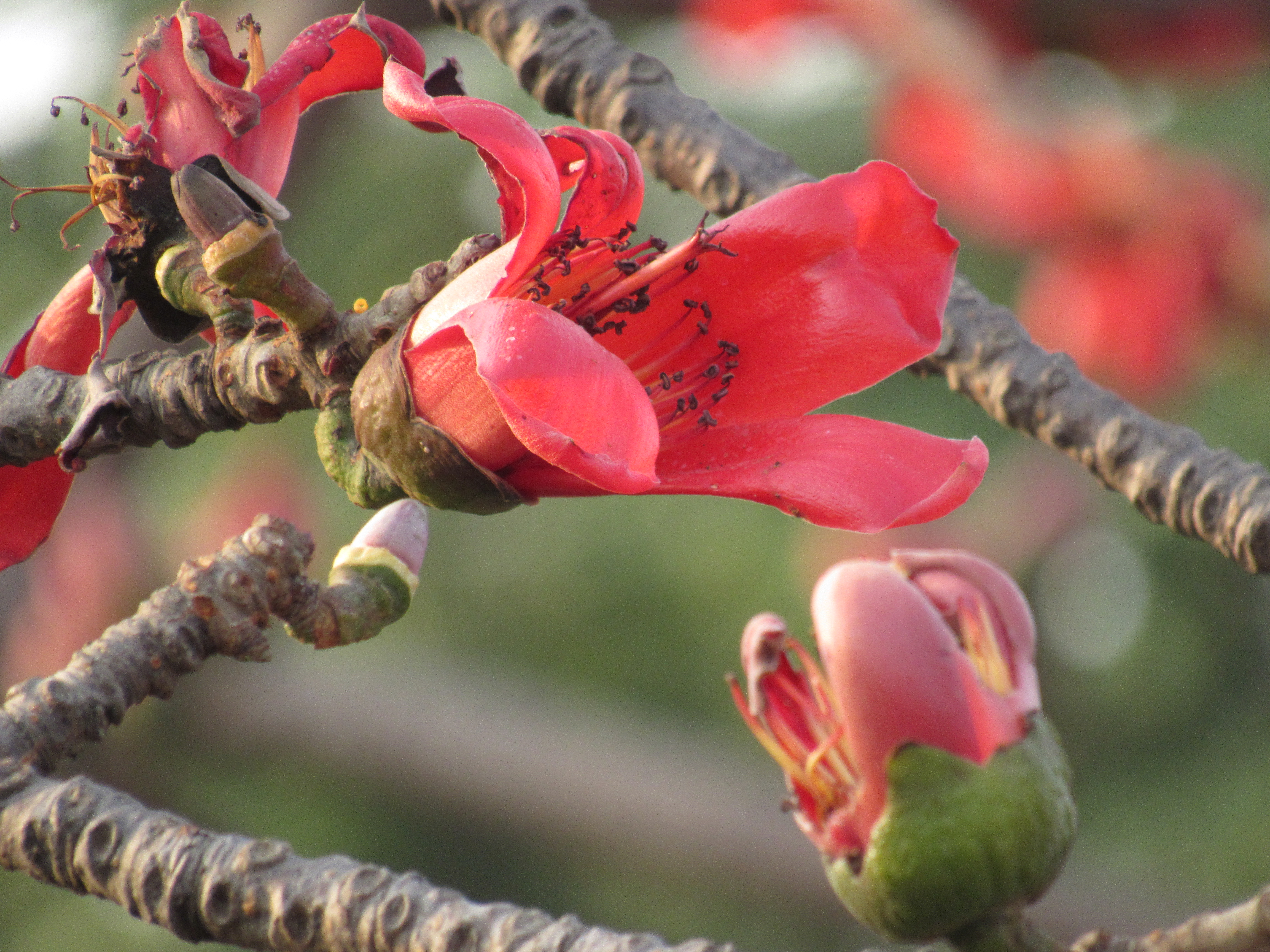 Flower of Bombax ceiba